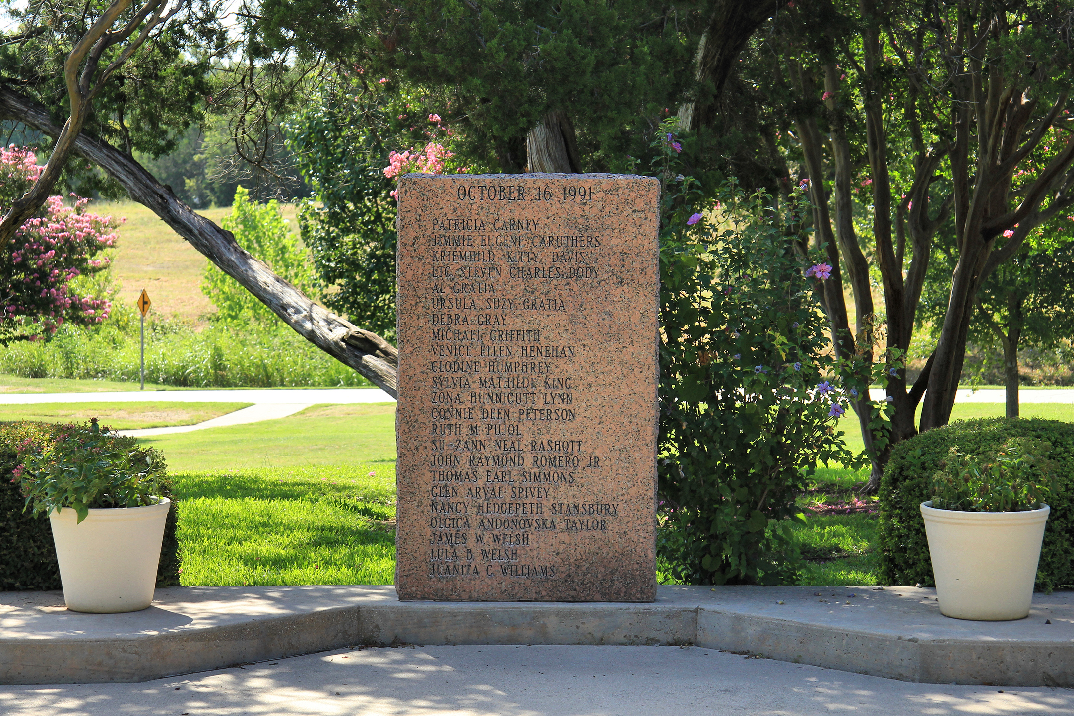 Memorial honoring the victims of the Luby's massacre in Killeen, Texas, United States.